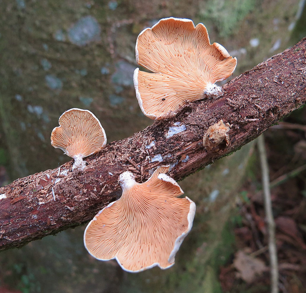 An orange-gilled 'oyster-style' fungus at Jatun Sacha Reserve, Ecuador.